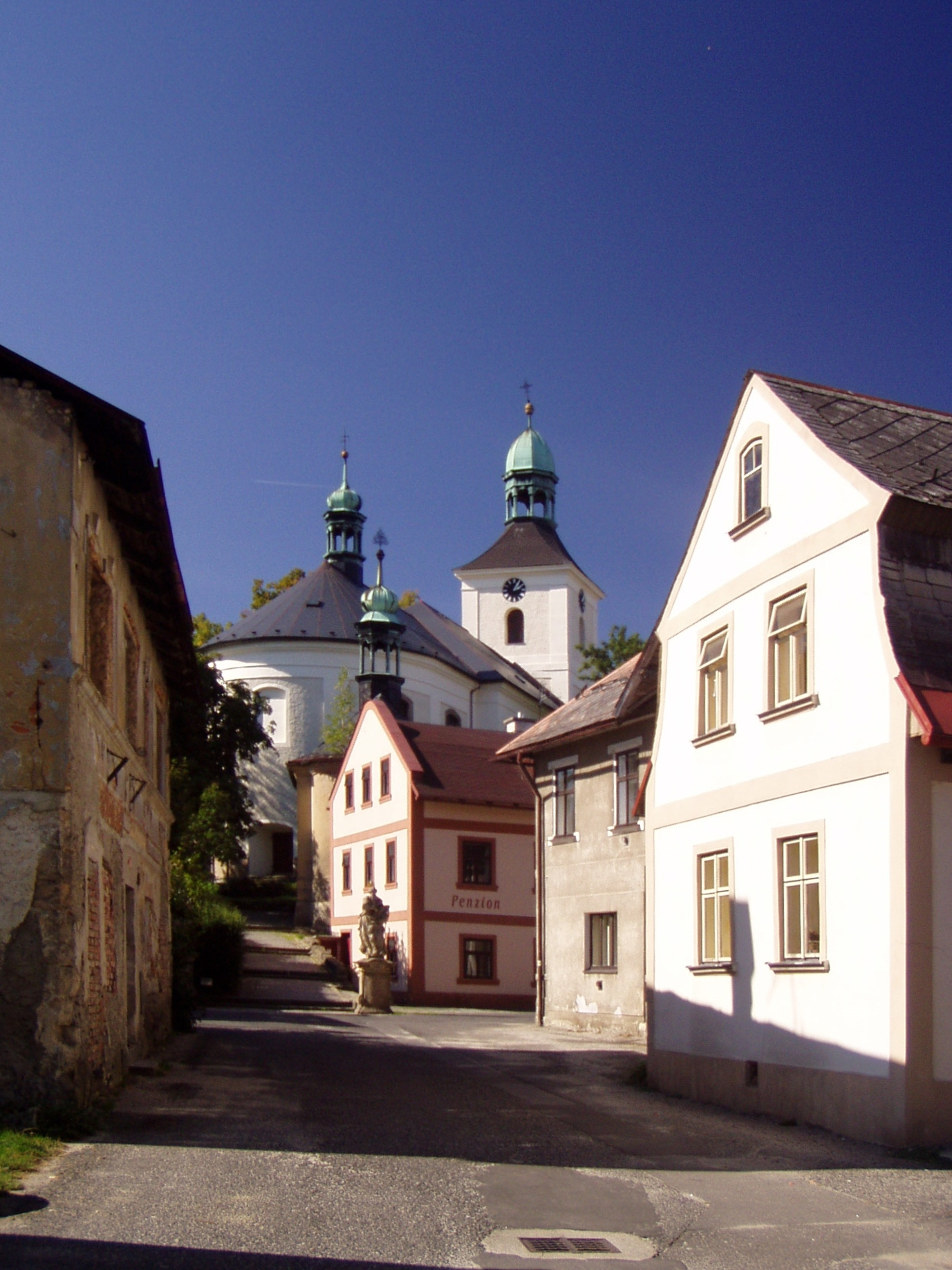 Church of st. Procopius of Sázava, Hodkovice nad Mohelkou